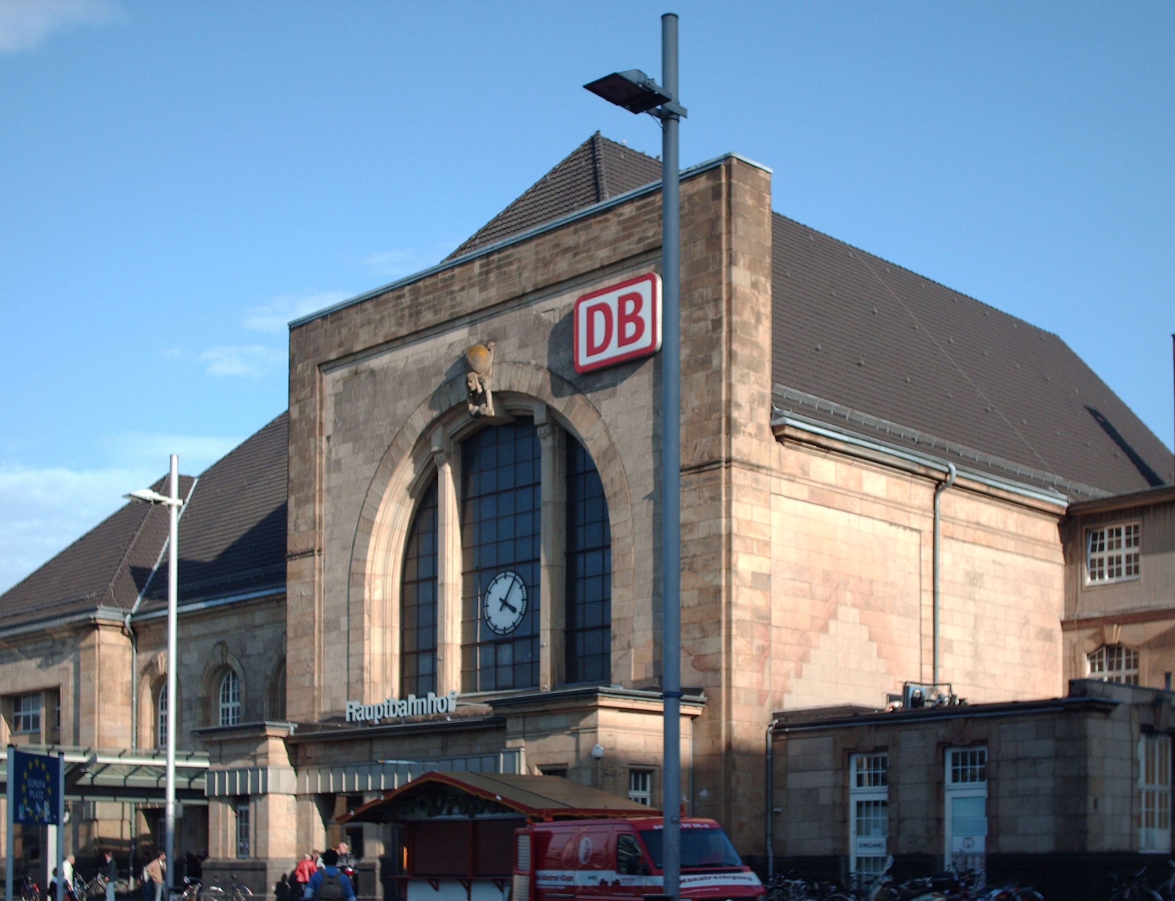 Mönchengladbach Hbf, Mönchengladbach, Germany check usage